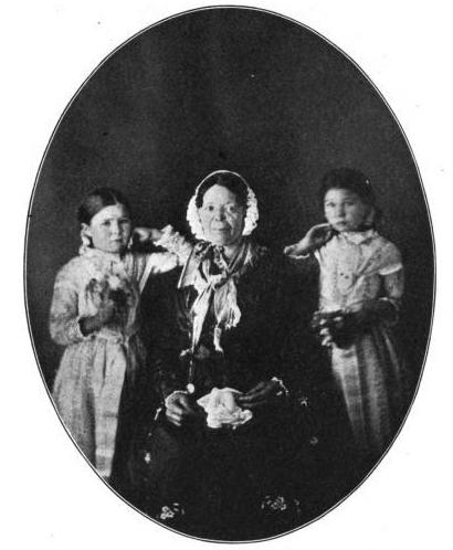 Georgia and Eliza Donner, with their guardian Mrs. Brunner in the middle. The children were part of the ill-fated Donner Party, which was trapped in the Sierra Nevada Mountains in 1847.